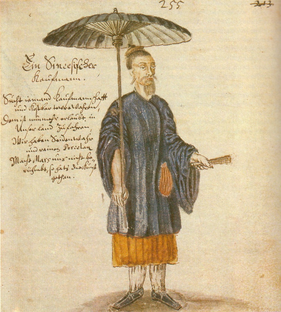 colored drawing by Caspar Schmalkalden (c.1618-c.1668). Approximate translation: A Chinese merchantman If one searches traders and precious expensive commodities, then he will be allowed to enter our country, We have silk commodities and pure porcelain. If we are not known for Mars (i.e., for being warriors), then all the more so for our art.